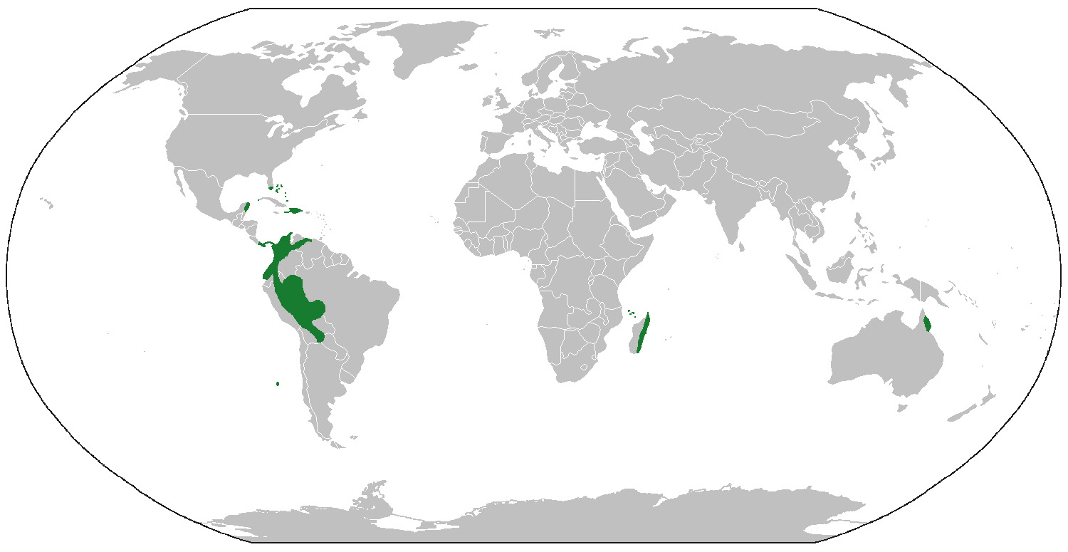 Map of geographic distribution of the palm subfamily Ceroxyloideae, adapted from Genera Palmarum of same.